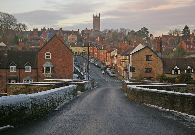 Ludford Bridge Looking across Ludford Bridge with Broad Street beyond, and the tower of St Laurence's Church in the background. Viewed in evening light with snow from a fall two days earlier highlighting the parapets of the bridge. The bridge is grade I listed - for listing particulars